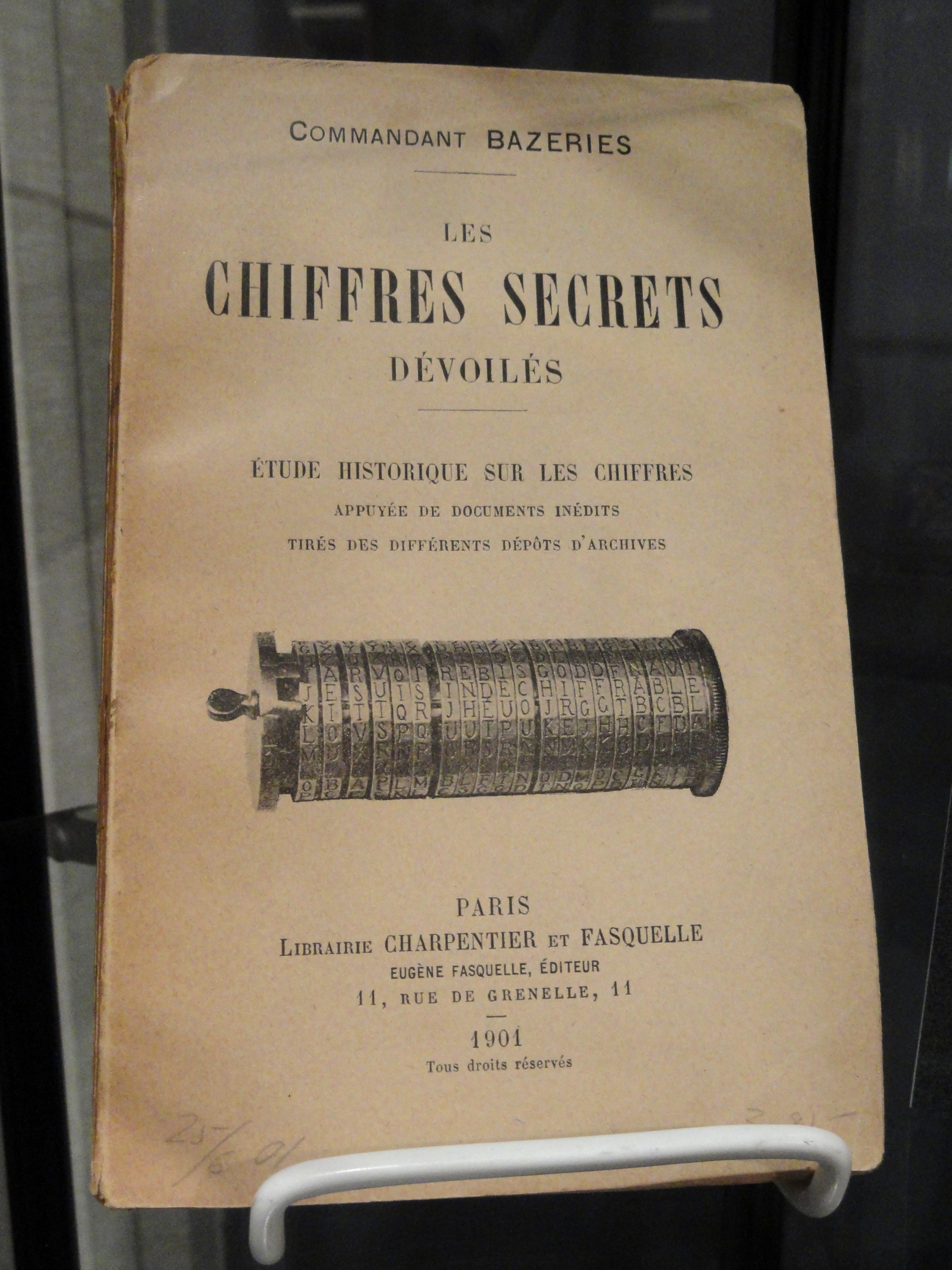 Exhibit in the National Cryptologic Museum, Fort Meade, Maryland, USA. All items in this museum are unclassified; items created by the United States Government are not subject to copyright restrictions.